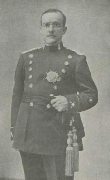 General José Sanjurjo y Rodriguez de Arias (bando repubblicano)